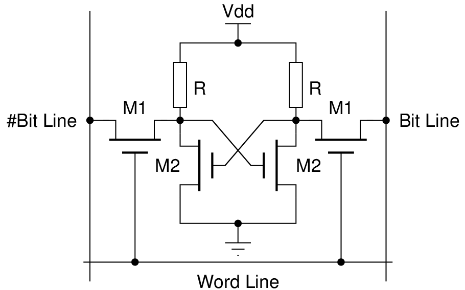 A schematic of a four-transistor SRAM cell. The resistors are typically implemented in a special high-resistivity polysilicon layer.